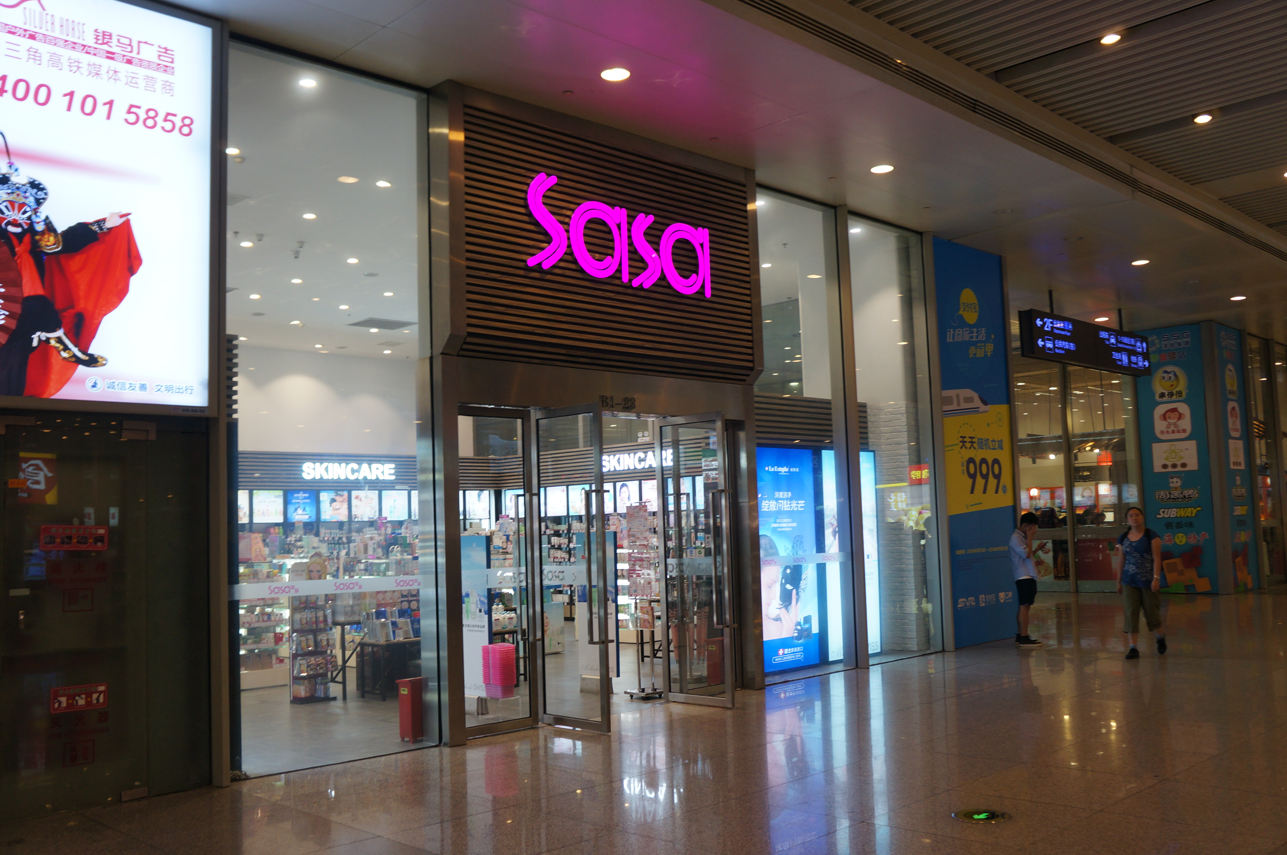 201609 Sa Sa store at Shanghai Hongqiao Station arrival area